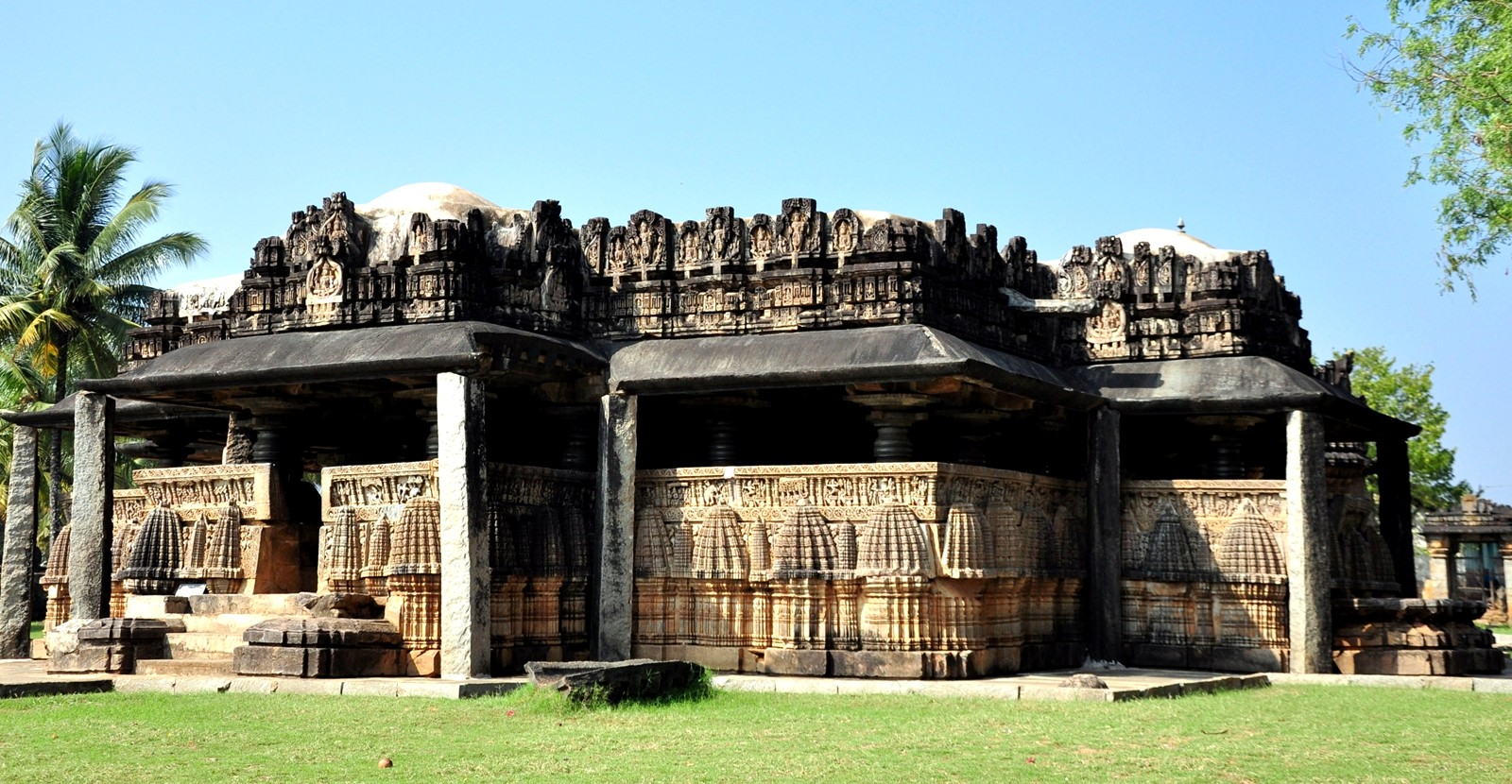 Amrutheshwara Temple at Amruthapura